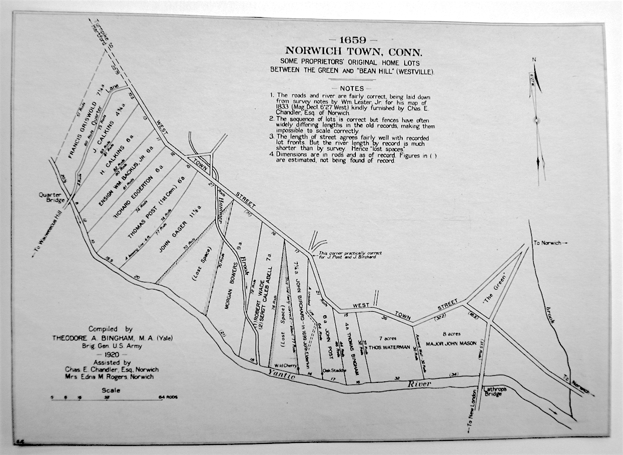 Layout of home lots for the original proprietors of Norwichtown in 1659